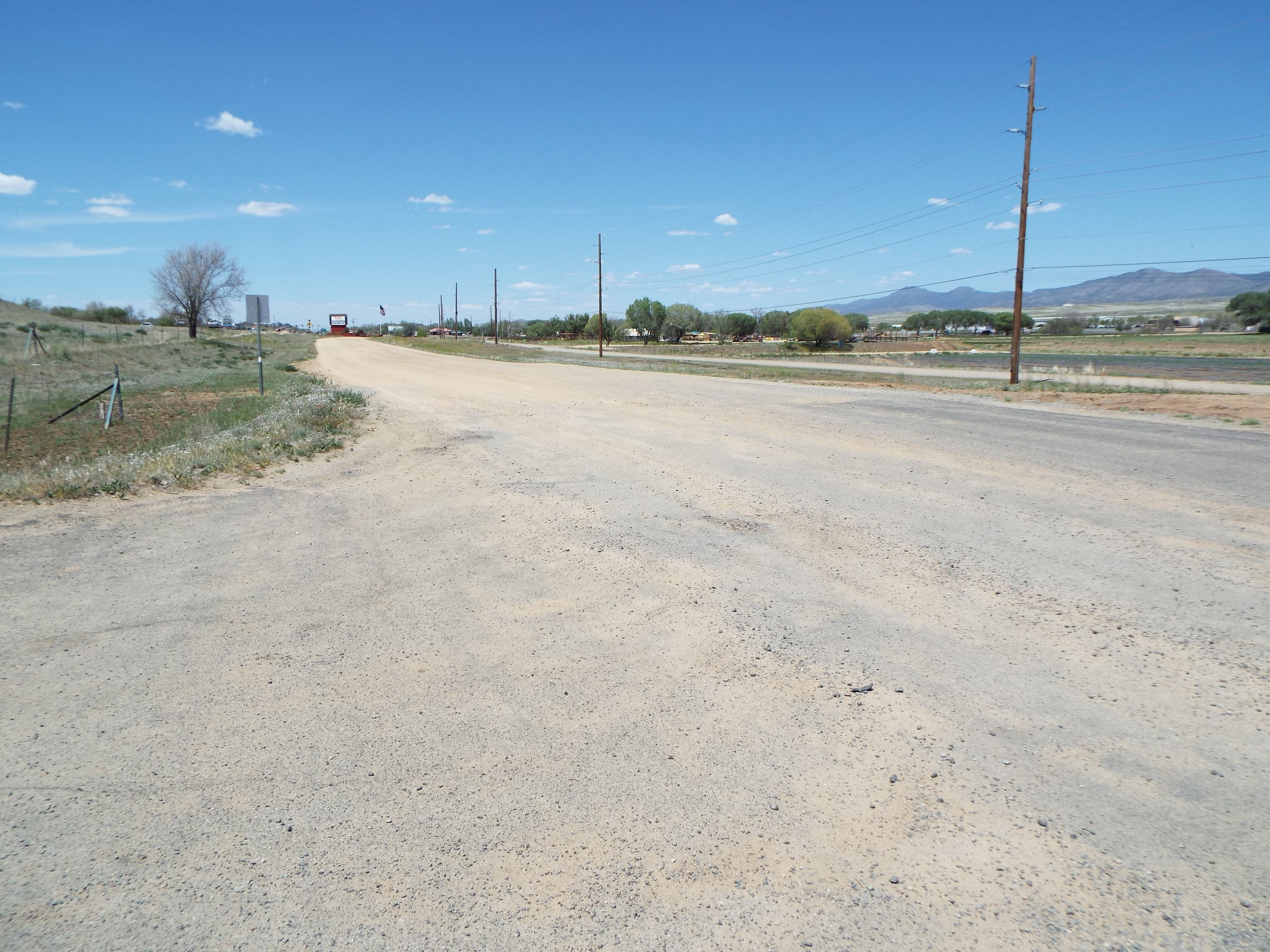 Old Black Canyon Highway built in 1860 in Dewey-Humboldt, Az